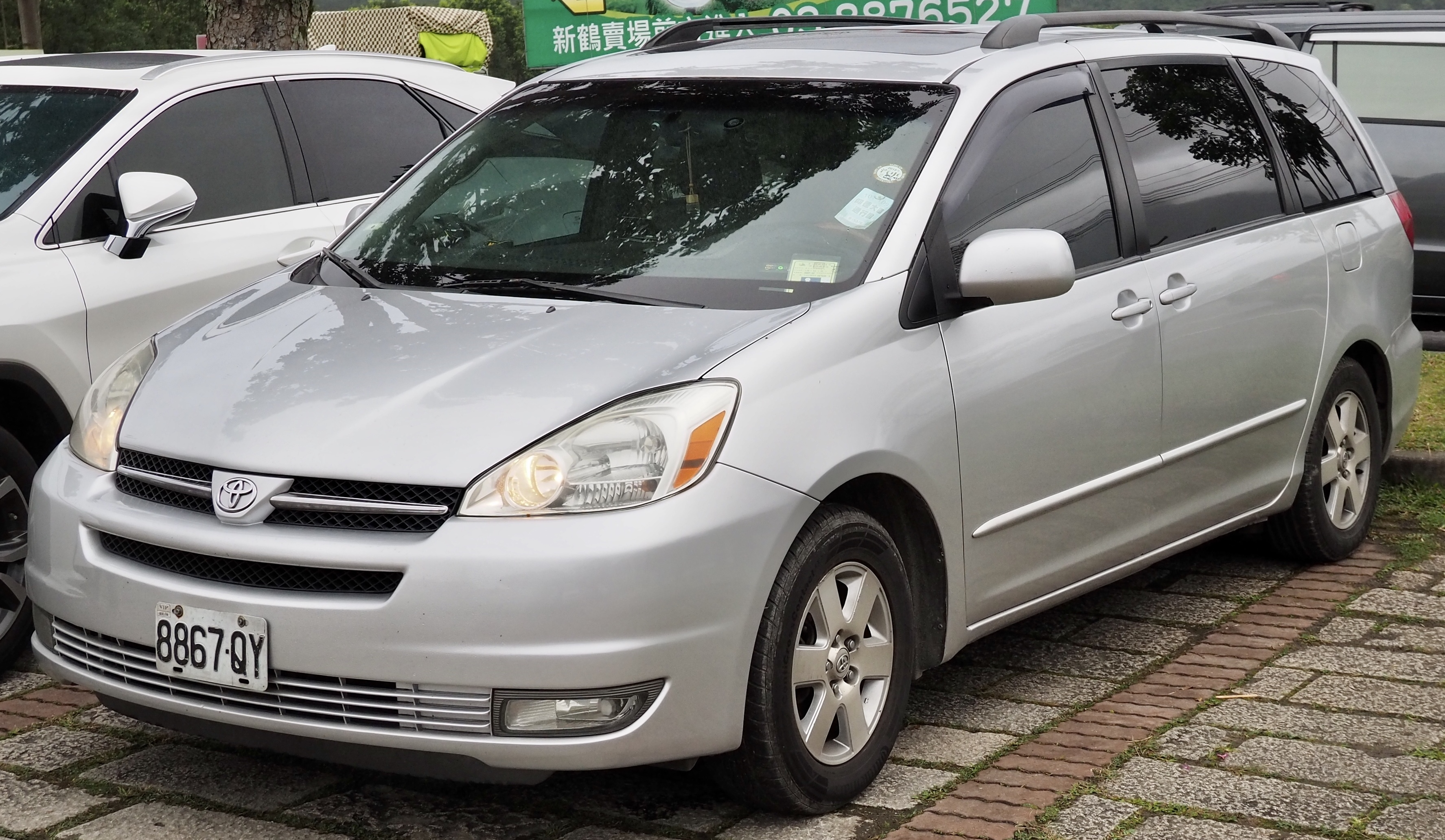 Seen in Hualien, Taiwan Quite unusual to see this thing in East Asia